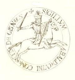 Seal of Baldwin III, Count of Guînes (1198–1244). This was attached in 1240 to a charter of the abbaye de Clairmarest.